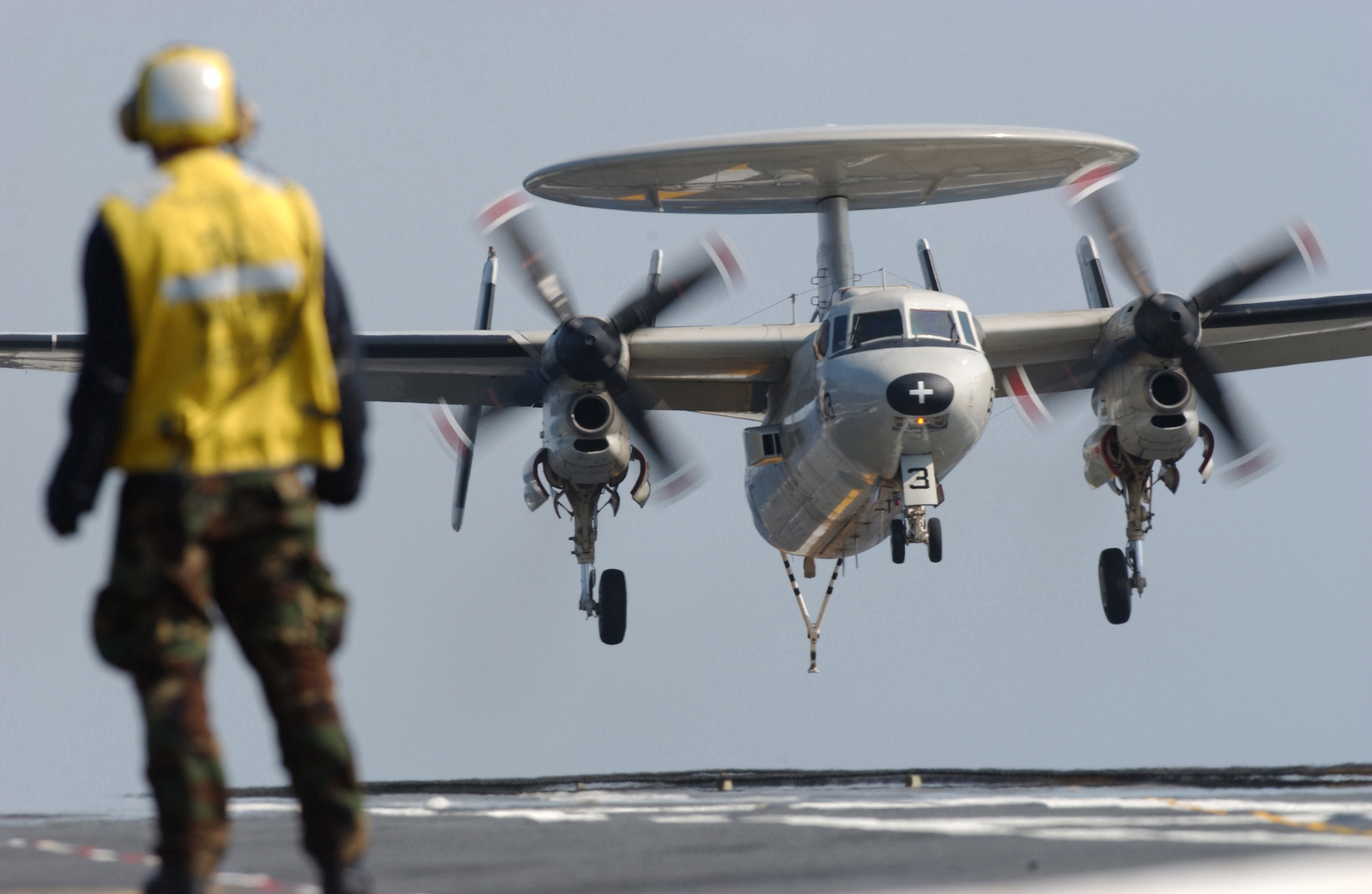 7th Fleet Area of Responsibility (AOR) Feb. 19, 2004 – An E-2C Hawkeye assigned to the “Liberty Bells” of Carrier Airborne Early Warning Squadron One One Five (VAW-115), makes an arrested landing aboard the aircraft carrier USS Kitty Hawk (CV 63). Currently under way in the 7th Fleet AOR, Kitty Hawk is the United States’ only permanently forward-deployed aircraft carrier operating from Yokosuka, Japan. U.S. Navy photo by Photographer’s Mate 3rd Class Jason T. Poplin. (RELEASED)